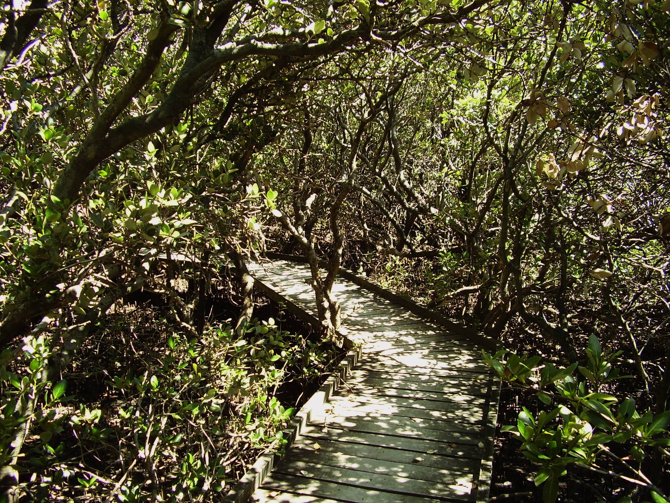 Boardwalk through the mangroves at St Kilda, South Australia